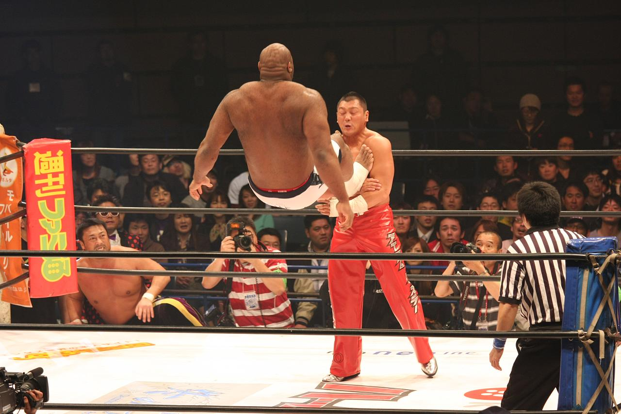 Bob Sapp dropkicking Wataru Sakata at Hustle H30